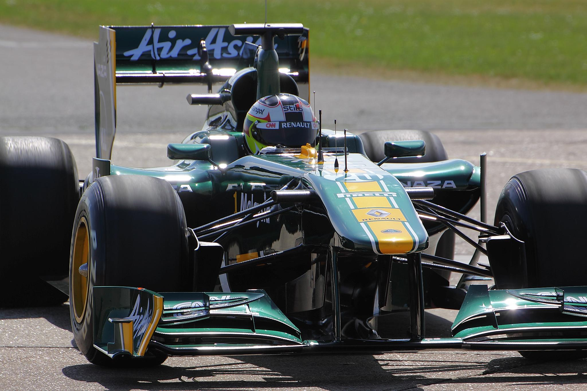 Team Lotus Formula 1 Car - Duxford